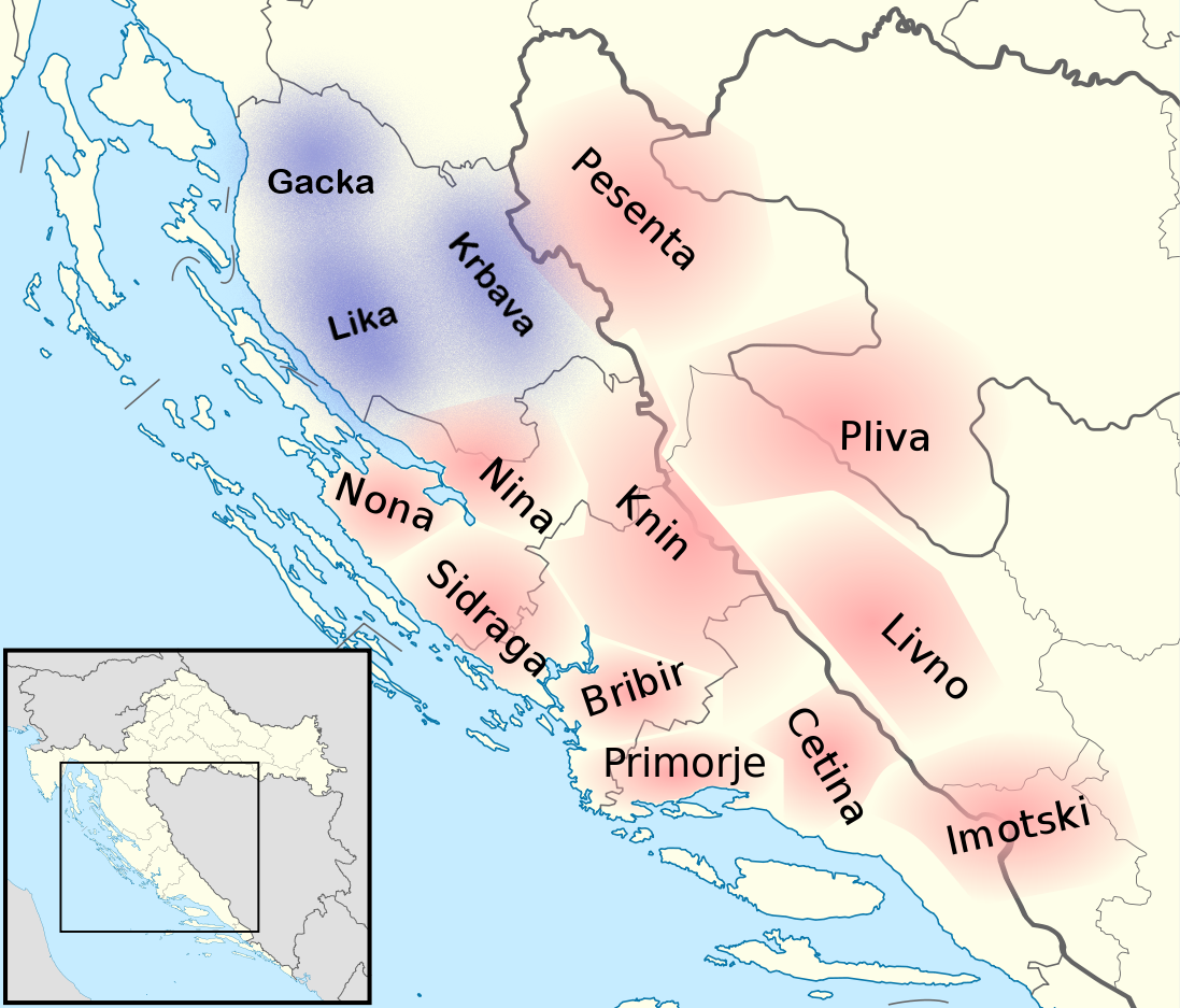 Map of the approximate position of the first fourteen counties, including counties of Gacka, Krbava, and Lika, in the Kingdom of Croatia (10th century). According to: J. Vrbošić, Historical survey of the development of county government and autonomy in Croatia (1992) N. Budak, Hrvatska povijest od 550. do 1100., (2018)